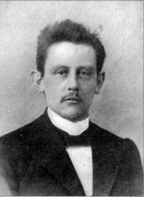 Norwegian philosopher Kristian Birch-Reichenwald Aars (1868-1917)